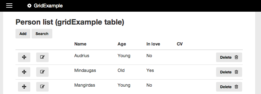 ImpressPages allows you to create a database table and put nice CRUD interface for your models in minutes. You will be glad you don't have to write all that admin code yourself.